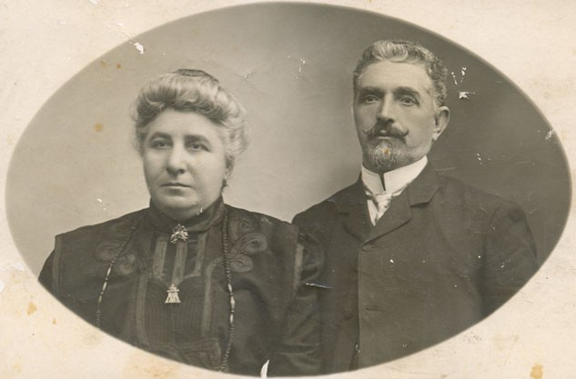 Foto George Noah with Theodora Noeva